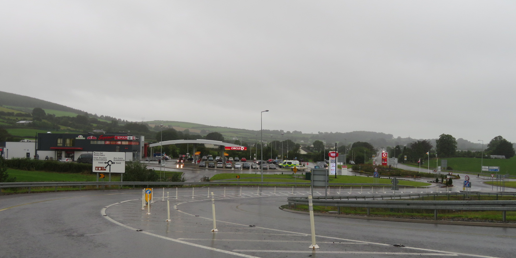 View of the Barack Obama Plaza from the Junction 23 slip road off the M7 motorway near Moneygall in Ireland. The Plaza is a motorway service area named after former US president Barack Obama.